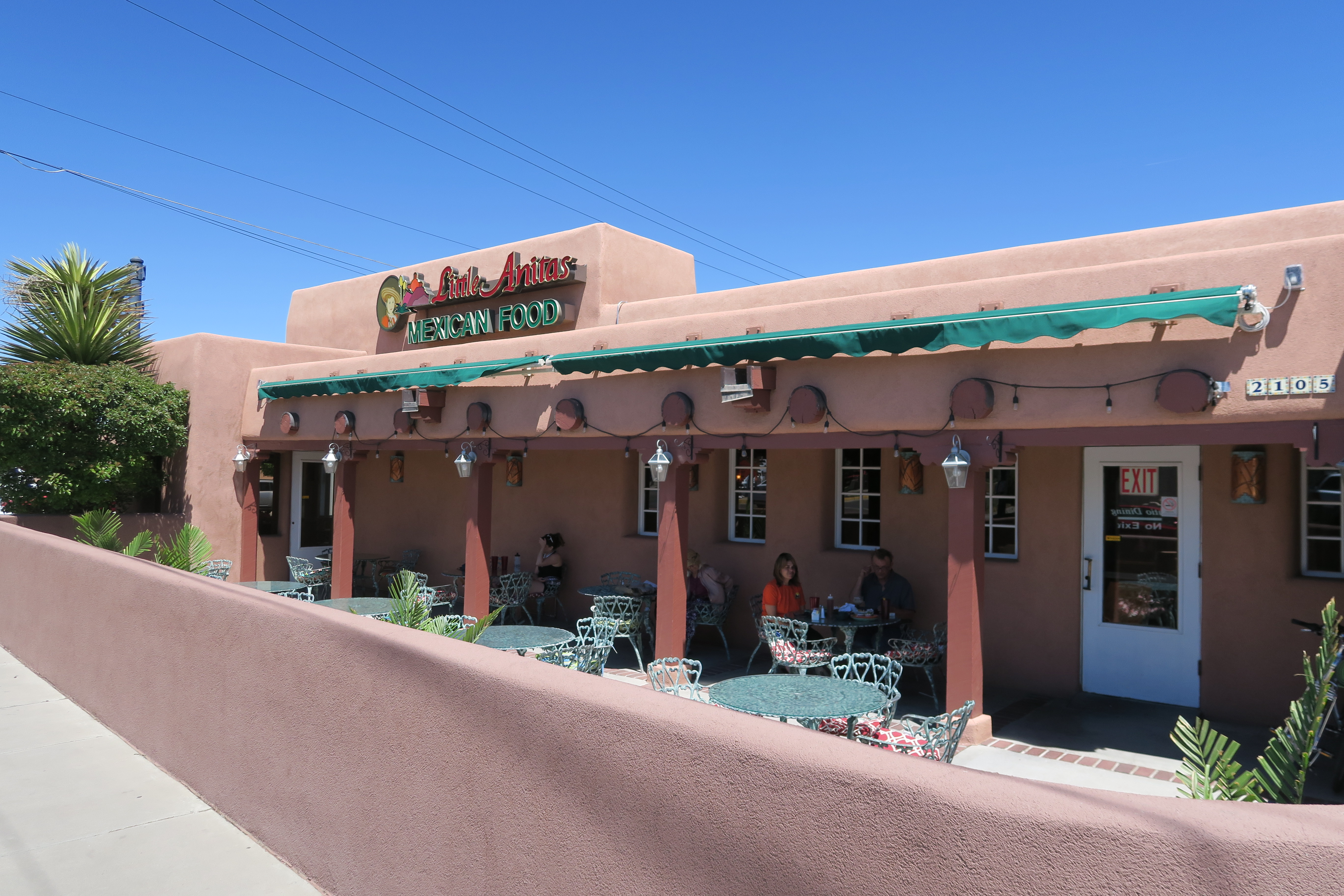 Little Anitas, Albuquerque New Mexico